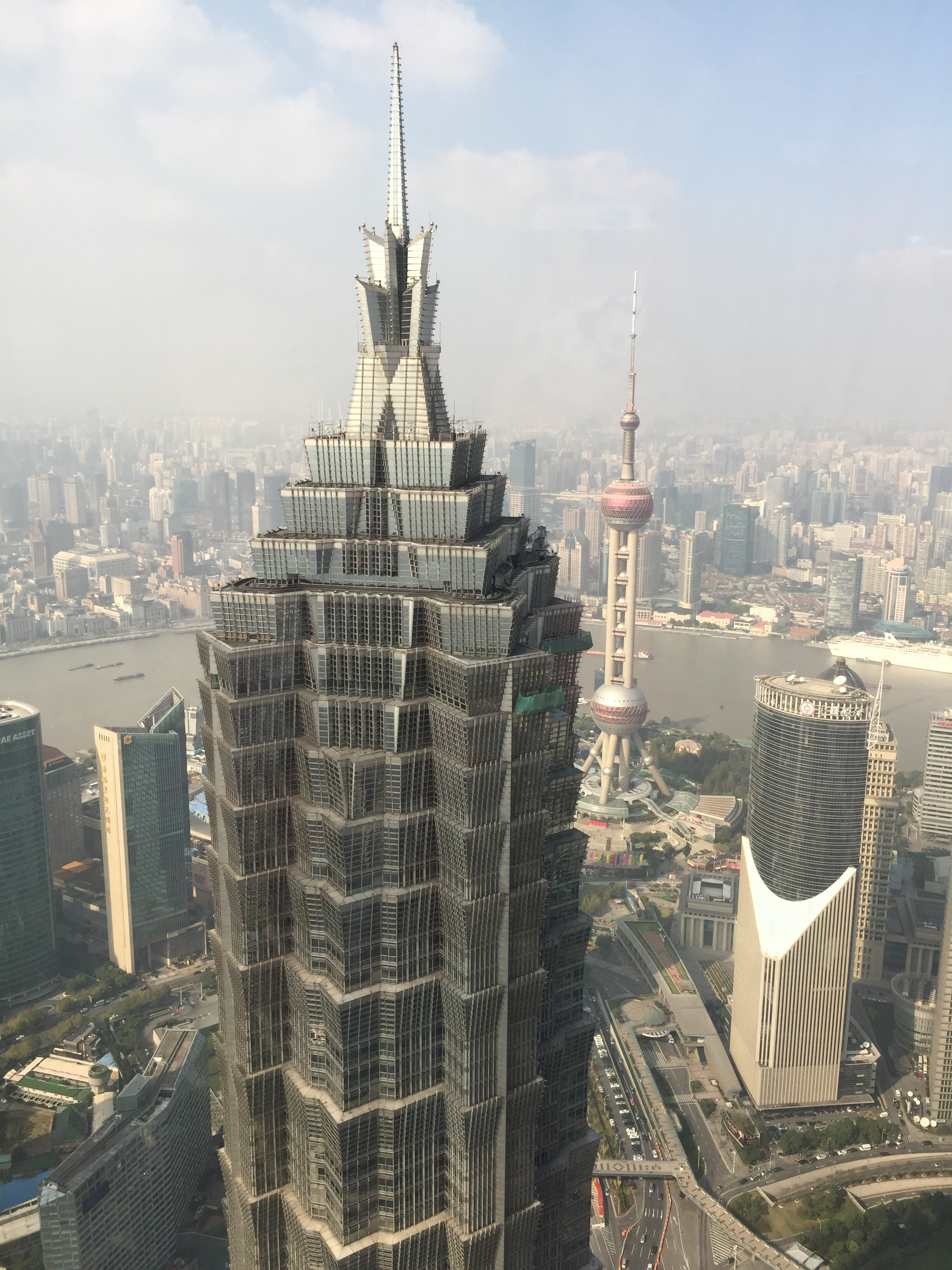 The skyline of Shanghai as seen from the lobby of the Park Hyatt at the Shanghai World Financial Center. The large building in front is the Jin Mao Tower. The Oriental Pearl Tower can be seen in the background.